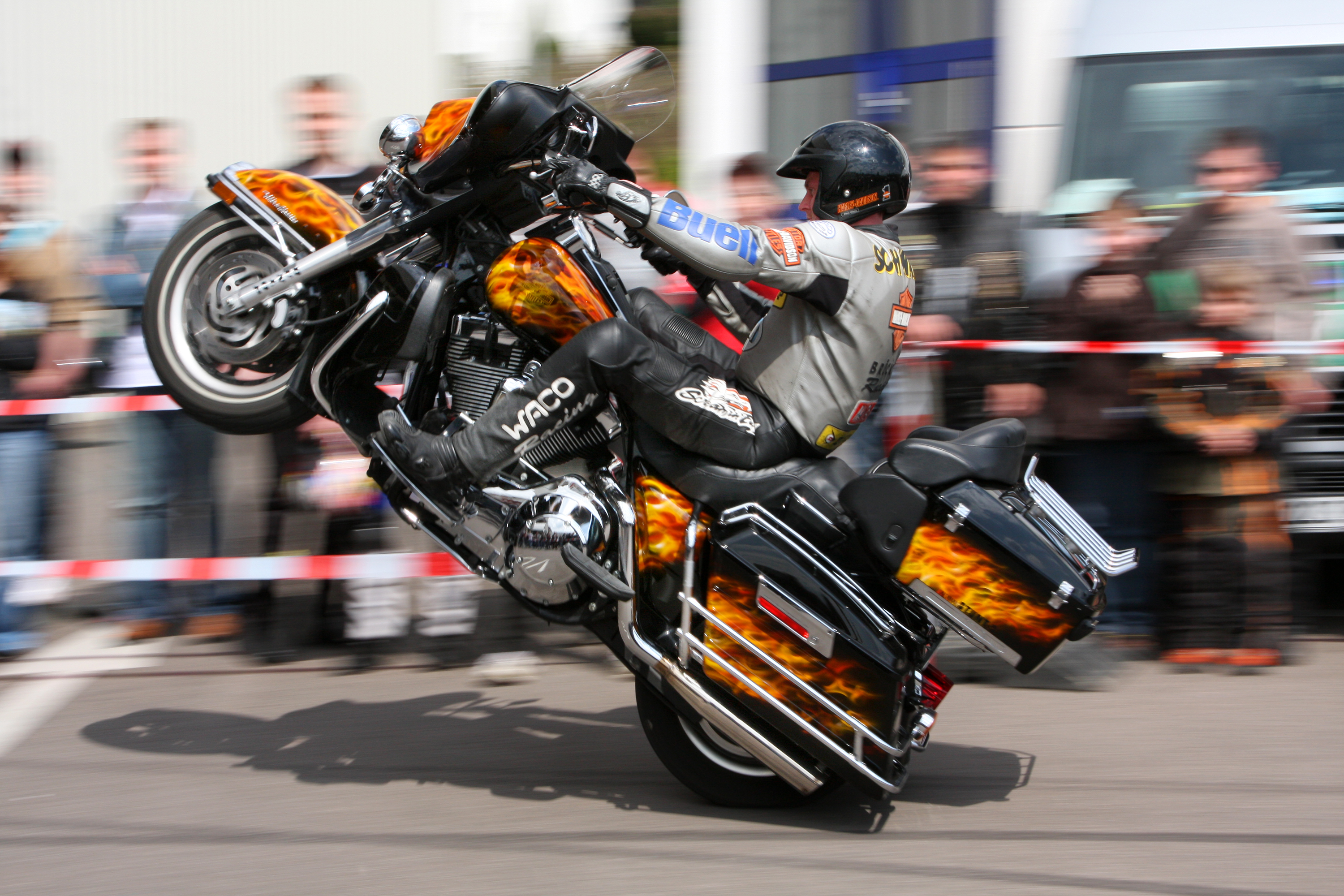 Motorcycle stunt; driver: Rainer Schwarz